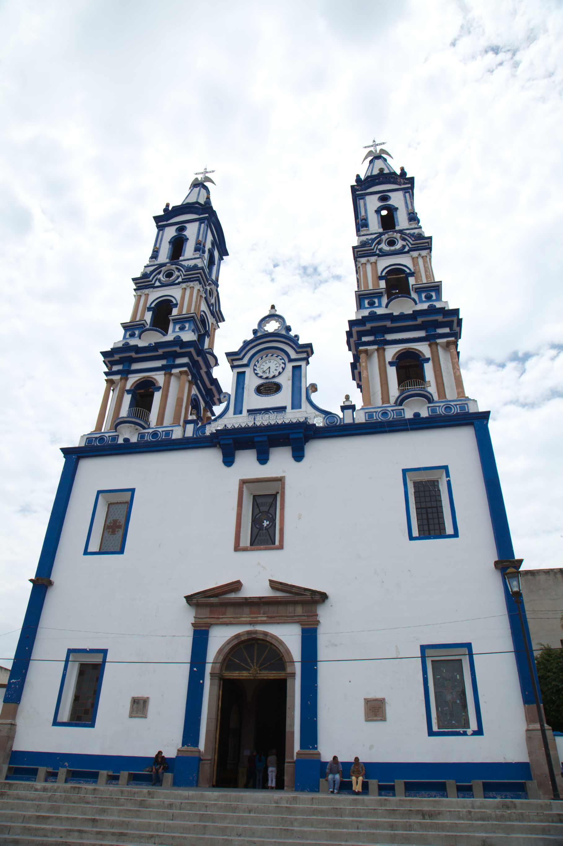 The church Nuestra Senora de Guadalupe in Ameca, Jalisco, Mexico